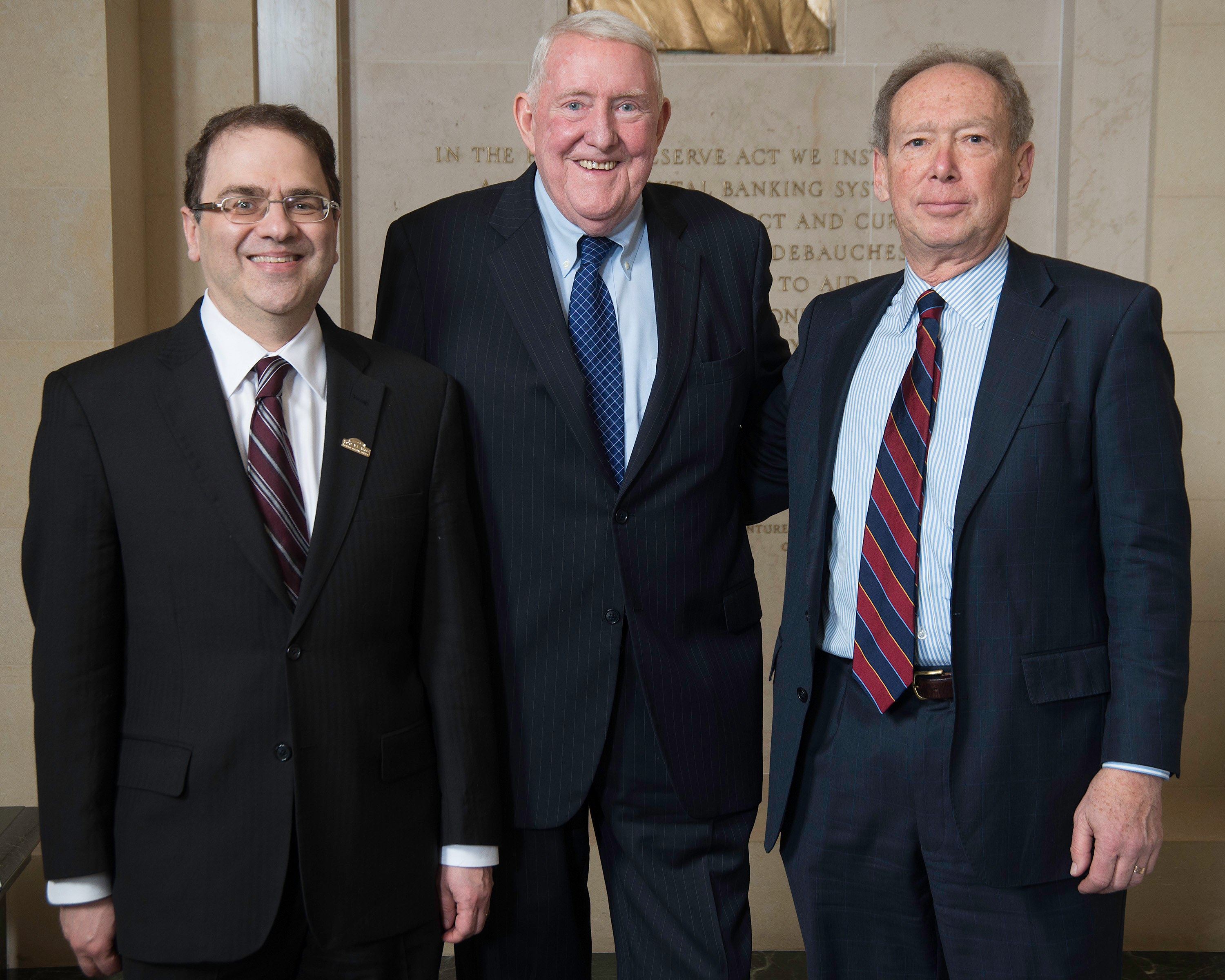 Current and Former FRB Minneapolis Presidents (Left to Right: Narayana R. Kocherlakota; E. Gerald Corrigan; Gary H. Stern)